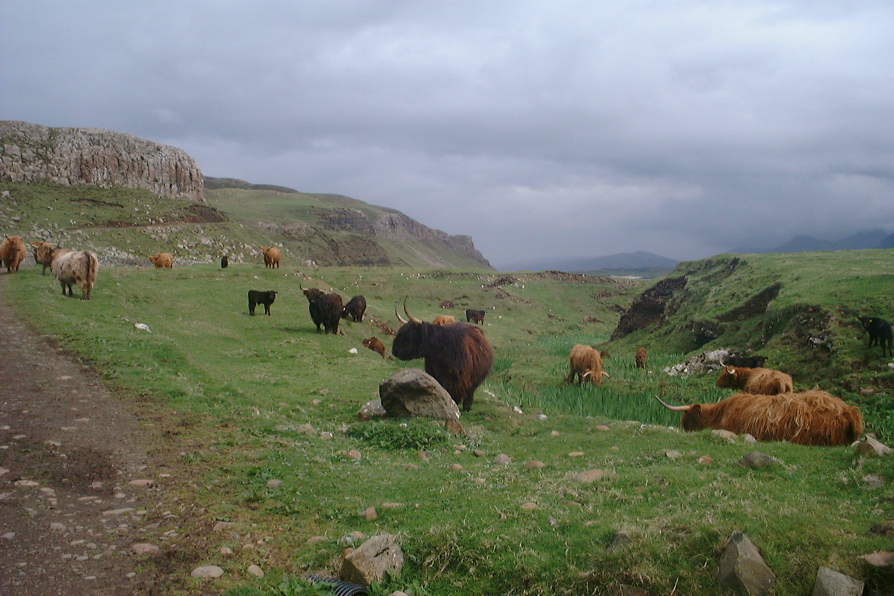 Highland Cattle on Canna, Hebrides, Scotland